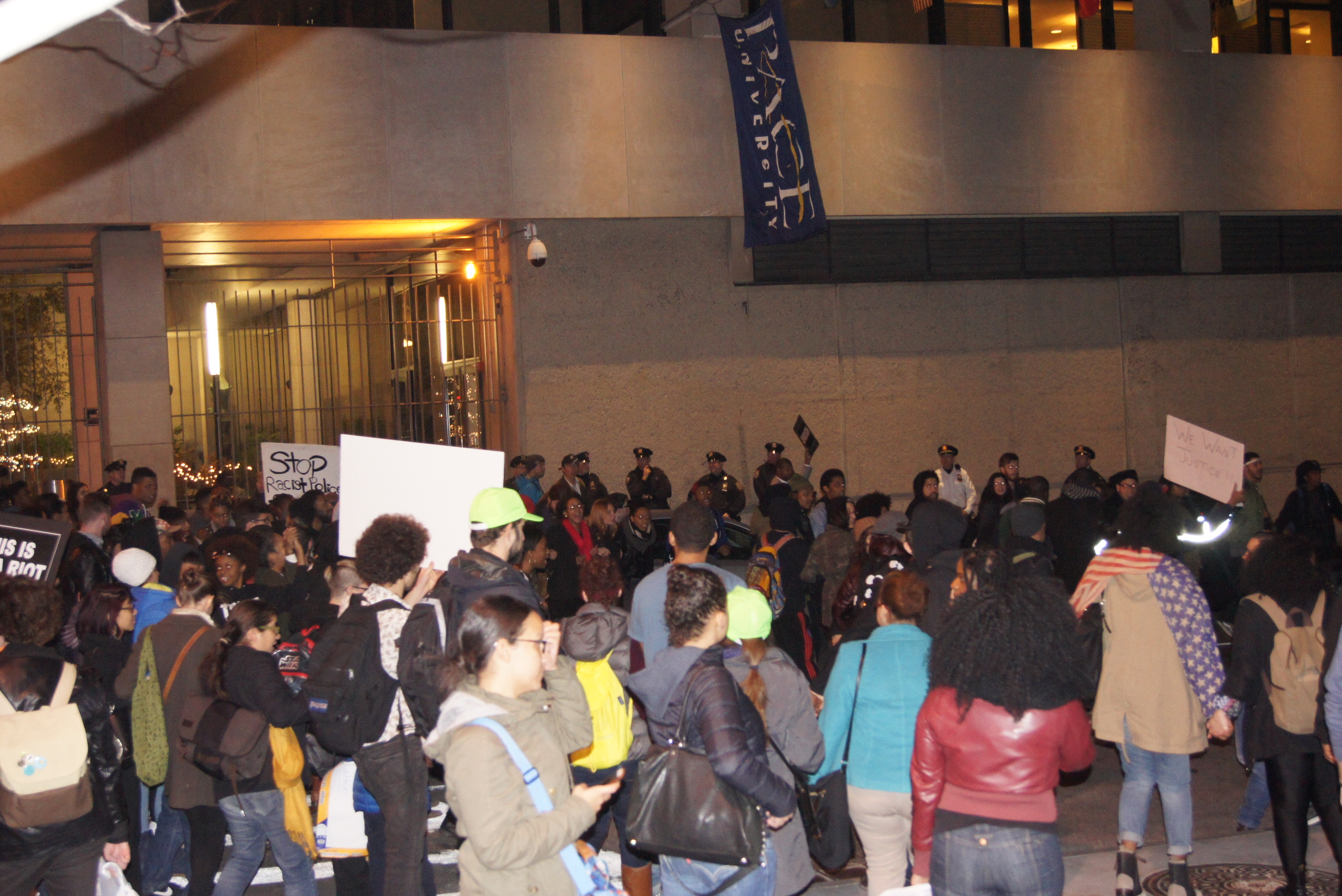 This image is from the protests surrounding the Shooting of Michael Brown and other related events. It was taken in New York City.